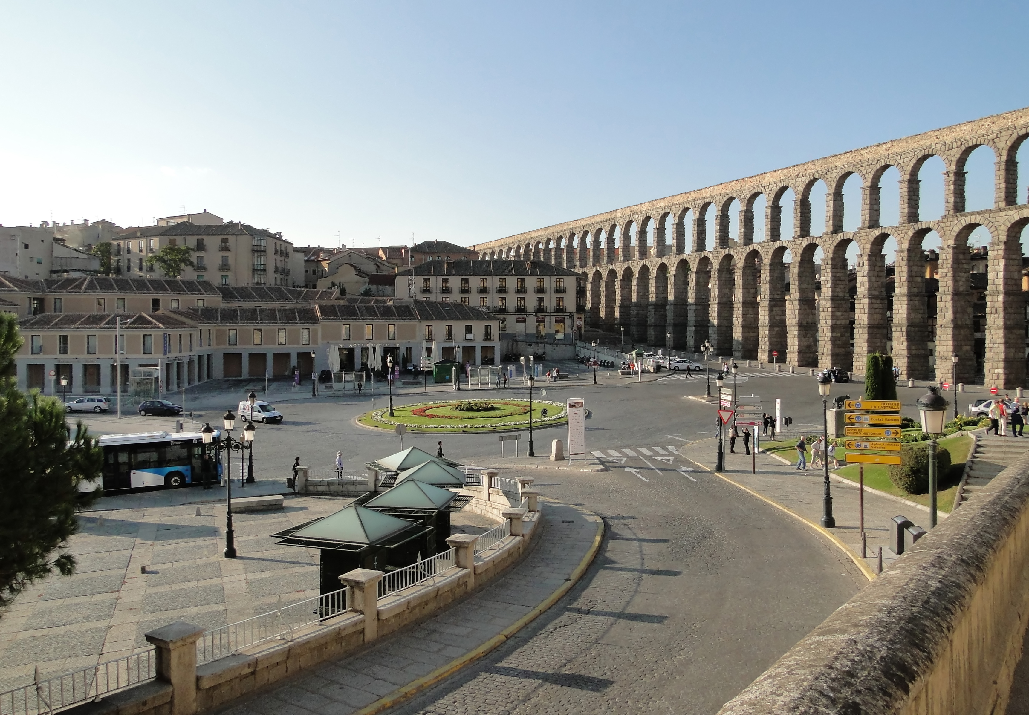 Plaza de la Artillería and the Aqueduct of Segovia, Spain